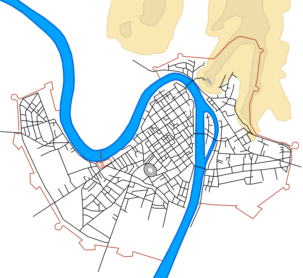 Verona venetian